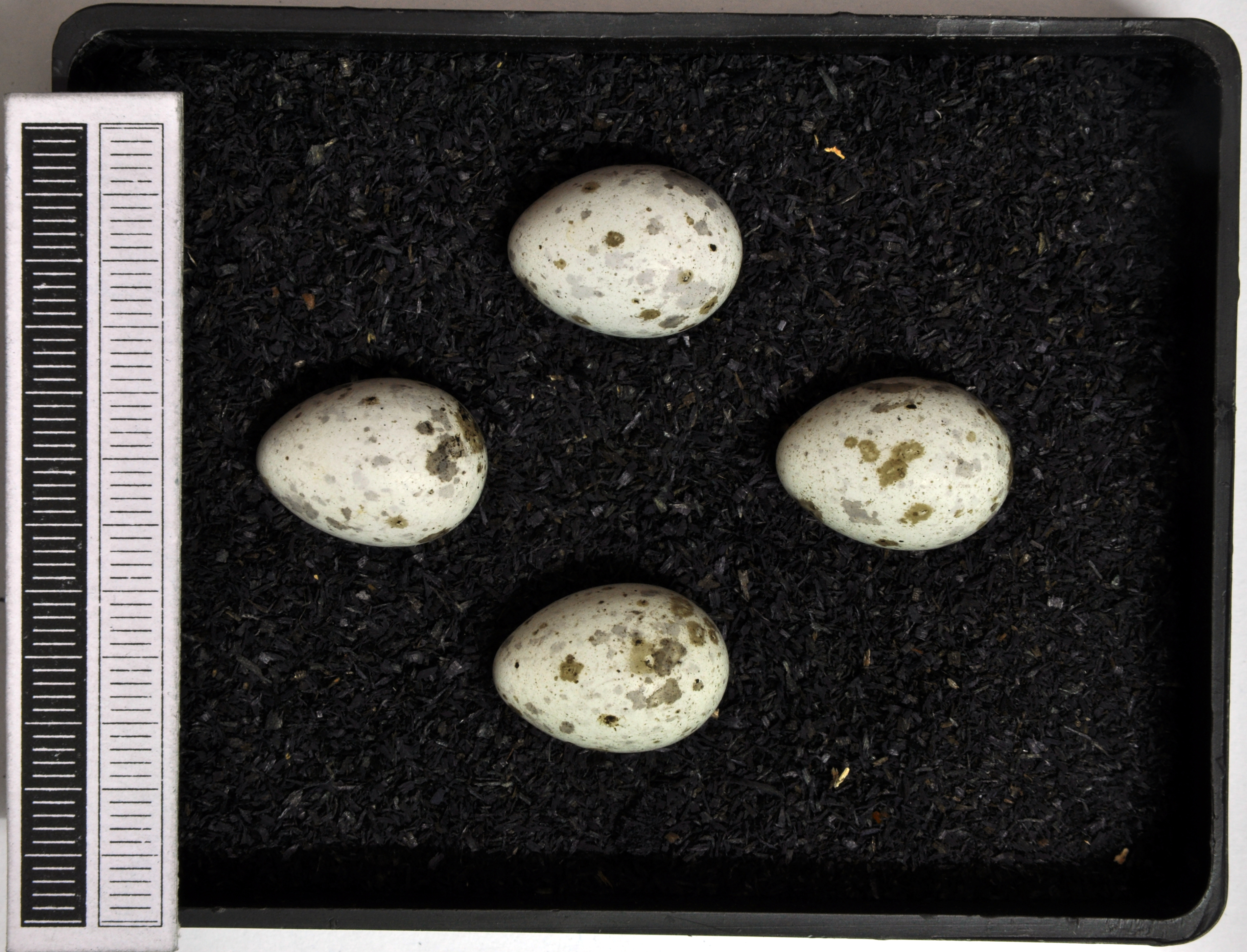 Marsh warbler Acrocephalus palustris, egg, Coll. Museum Wiesbaden, Origin: Bavaria, 23.06.1973, leg. W. Abelmann